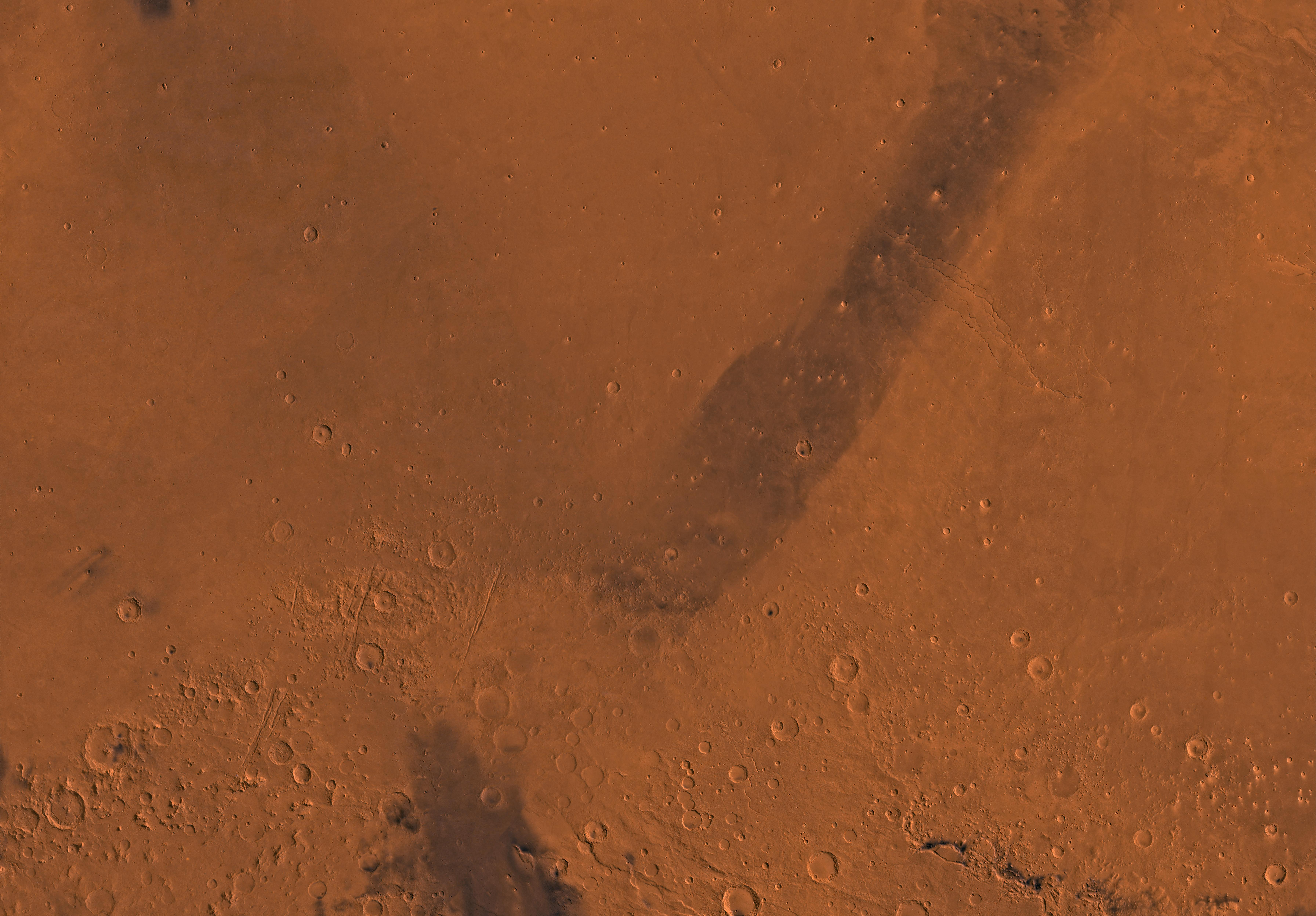 PIA00174: MC-14 Amenthes Region Mars digital-image mosaic merged with color of the MC-14 quadrangle, Amenthes region of Mars. The southern part includes heavily cratered highlands. The northern part is dominated by relatively smooth plains of Elysium Planitia and the eastern half of the Isidis basin. Latitude range 0 to 30 degrees, longitude range -135 to -90 degrees.